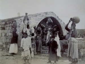 Fountain of the Virgin, Nazareth, 1891. From original silver print in book titled: "A Month in Palestine and Syria, April 1891," (author unknown). Original 19th century book in the possession of Kimberly Blaker, New Boston Fine and Rare Books.